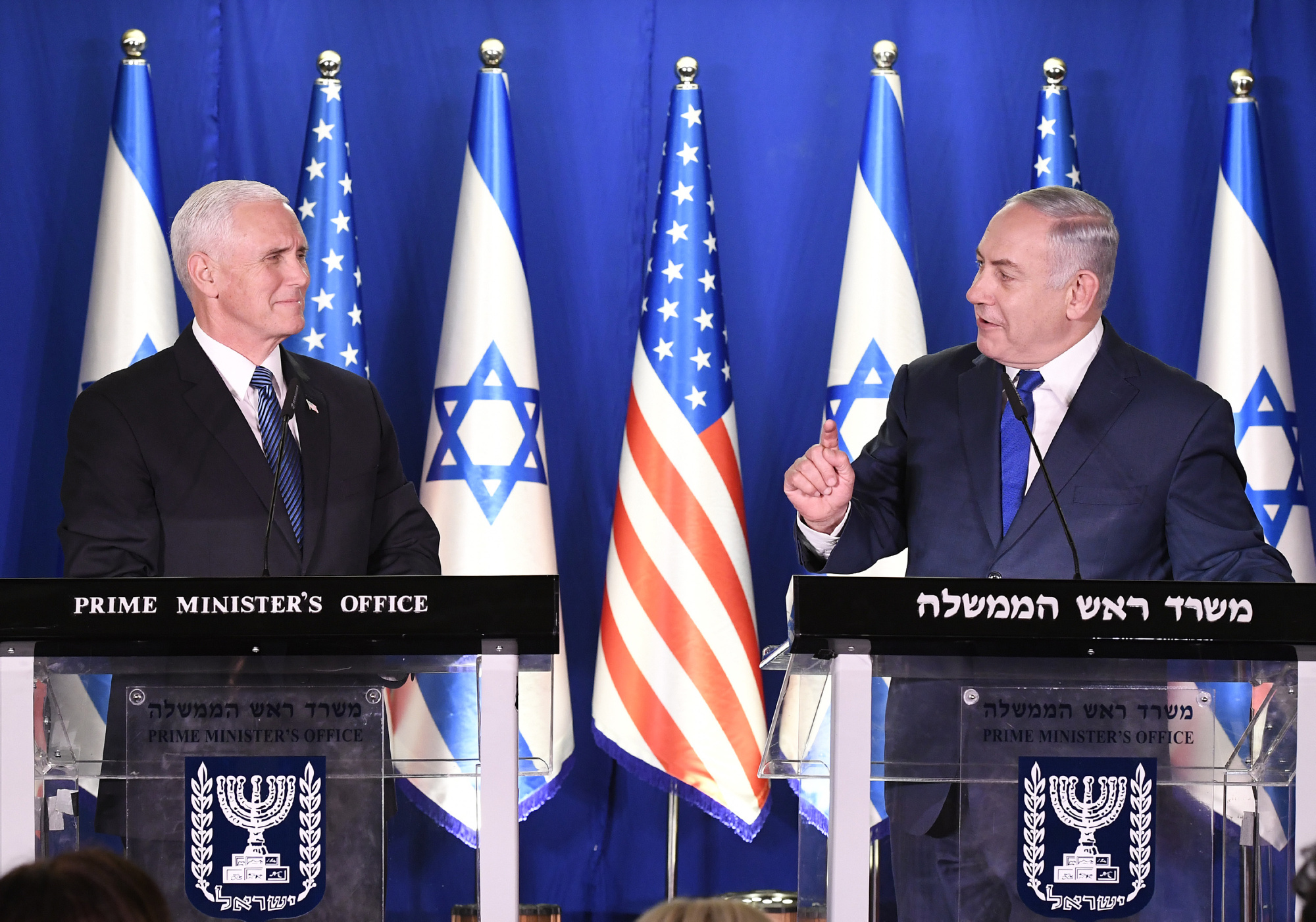 Vice President of the United States Mike Pence and Israeli Prime Minister Benjamin Netanyahu deliver remarks before dinner at the Prime Minister’s Residence in Jerusalem January 22, 2018.